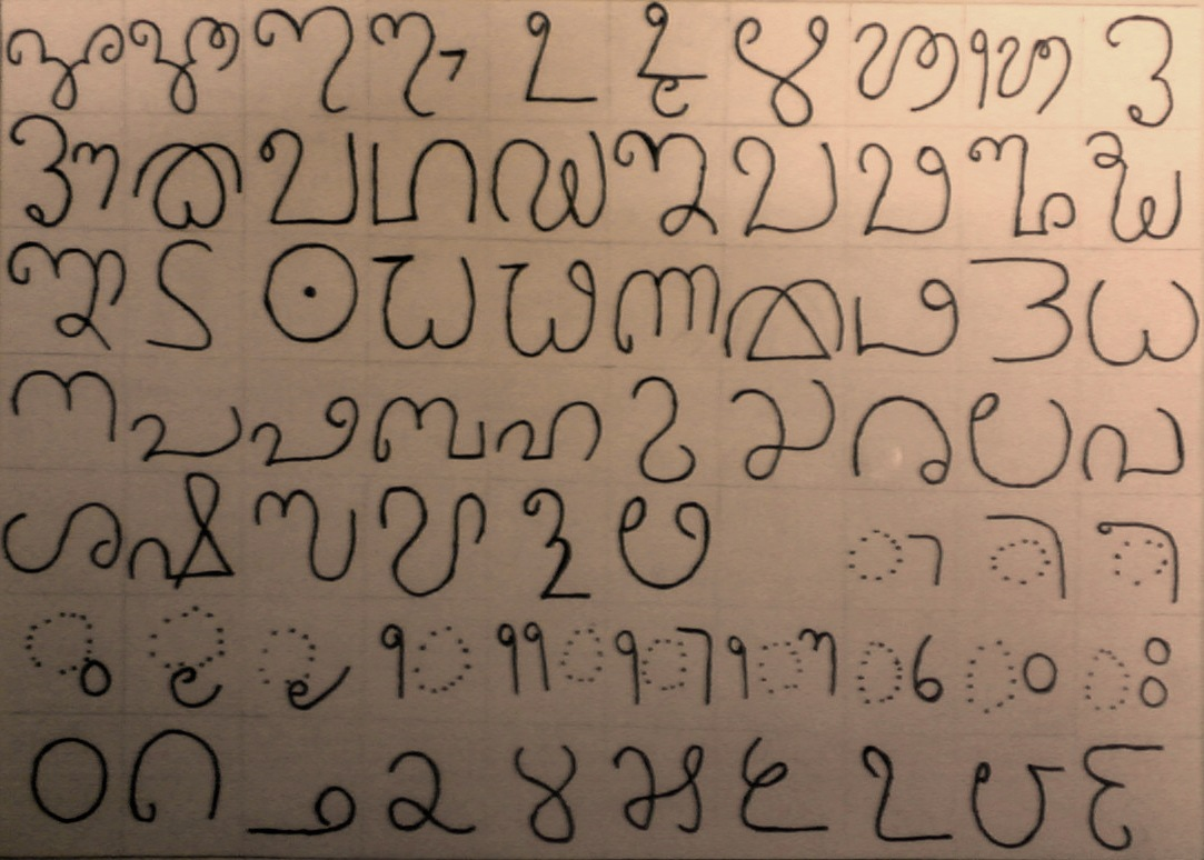 this is an image of the the tulu script handwriiten by me and the photo clicked the tulu letter are in the following order 1. TULU LETTER A, AA , I, II, U, UU, VOCALIC R, E, AI, O 2. TULU LETTER AU, KA, KHA, GA, GHA, NGA, CA, CHA, JA, JHA 3. TULU LETTER NYA, TTA, TTHA, DDA, DDHA, NNA, TA, THA, DA, DHA 4. TULU LETTER NA, PA, PHA, BA, BHA, MA, YA, RA, LA, VA 5. TULU LETTER SHA, SSA, SA, HA, LLA, LLLA. TULU VOWEL SIGN A, I ,II 6. TULU VOWEL SIGN U, UU,VOCALIC R, E, AI, O, AU, TULU VIRAMA, ANUSVARA, VISARGA 7. NUMERALS 0, 1, 2, 3, 4, 5, 6, 7, 8, 9